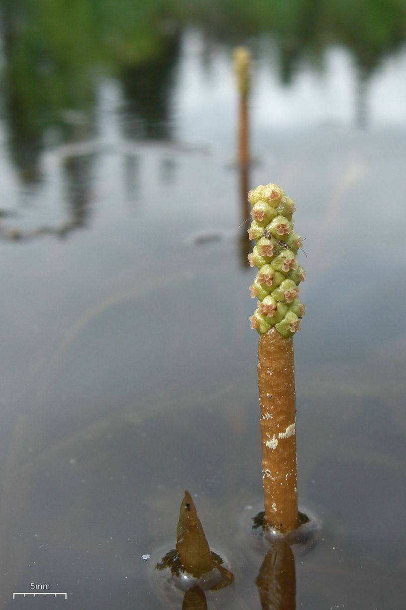 Potamogeton praelongus Wulf. 20090615.4 Wells Gray Park, BC